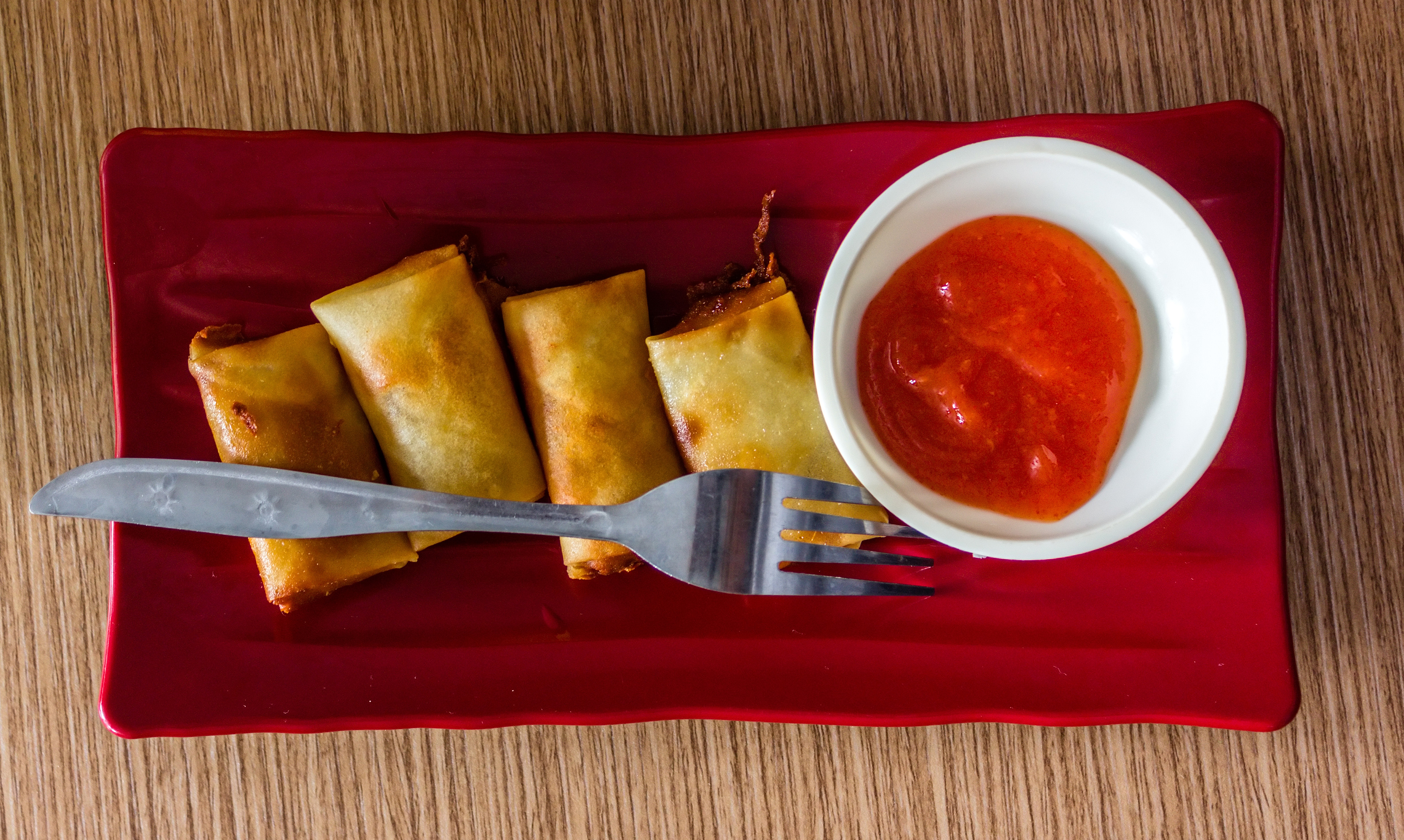 Lumpia at Teh Jawa, Purwokerto Station, Purwokerto 2015-03-20